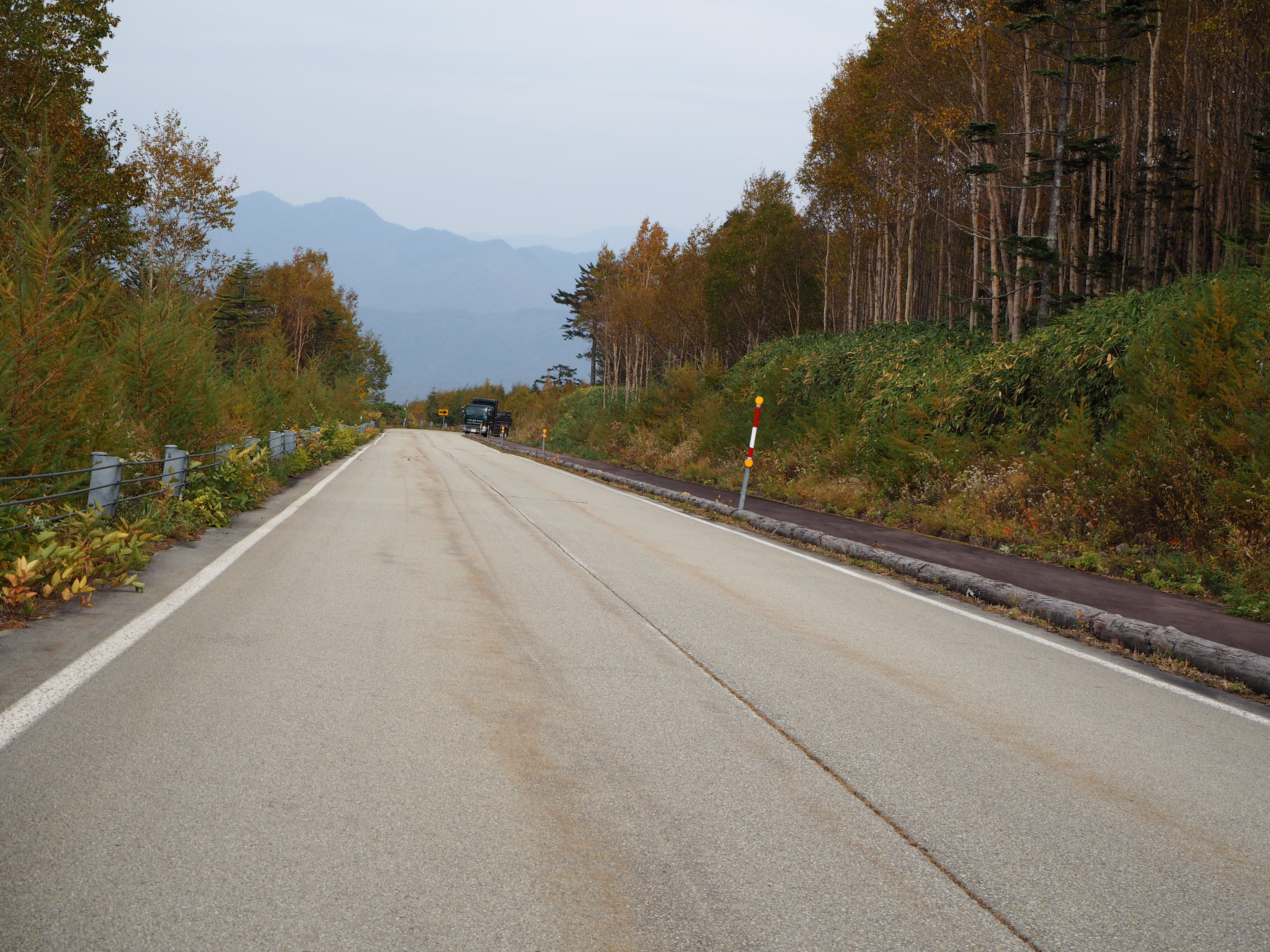 Gifu Prefectural road 435